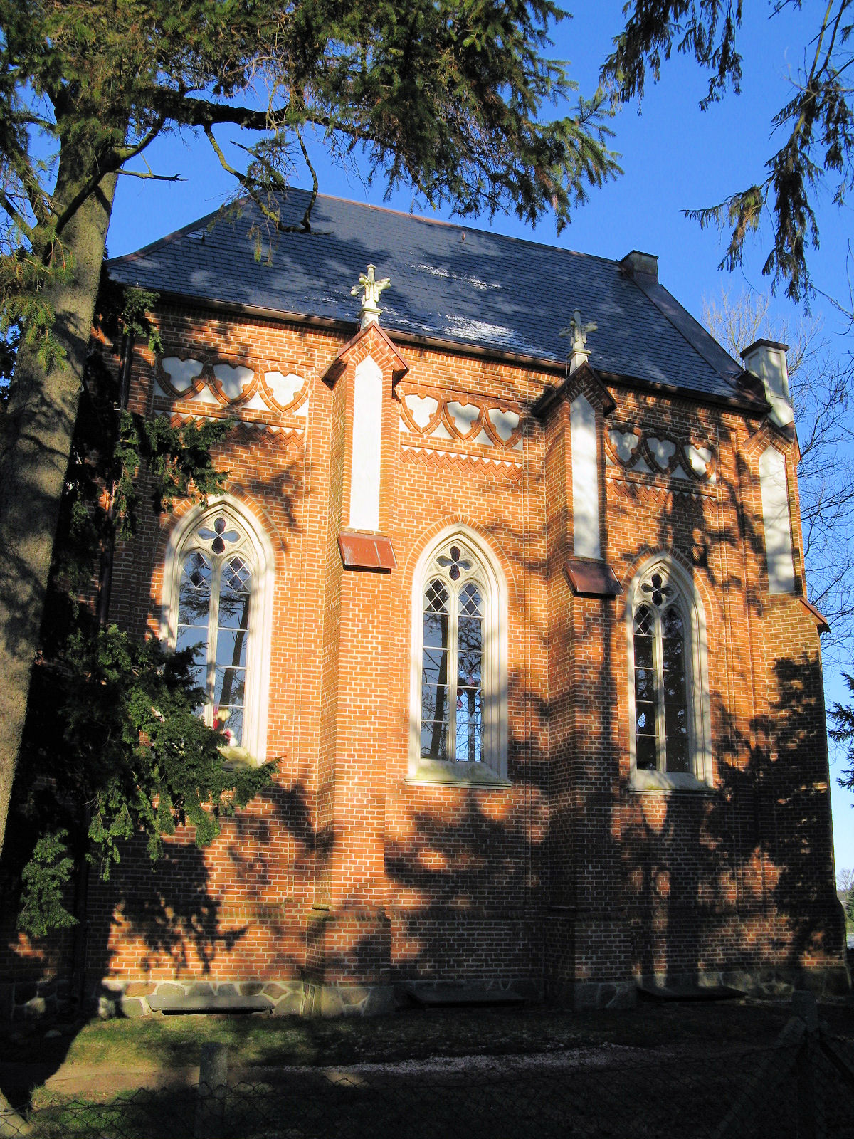 Chapel in Hülseburg, Mecklenburg-Vorpommern, Germany